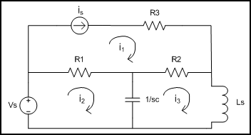 "Simple Circuit to use as an example in Mesh Analysis article"